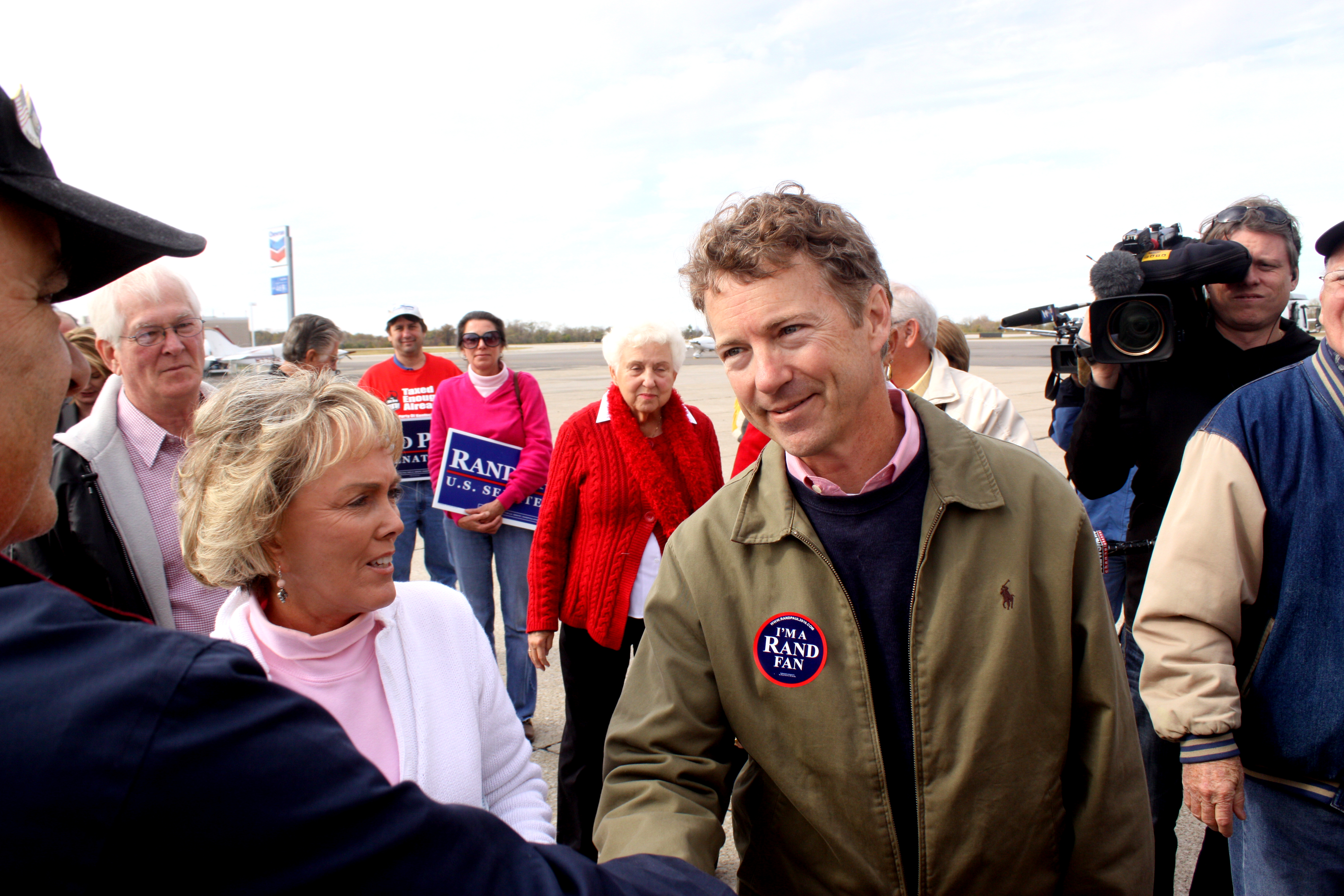 Then-United States Senate candidate Rand Paul speaking with supporters at a campaign stop at Bowman Field in Louisville, Kentucky.